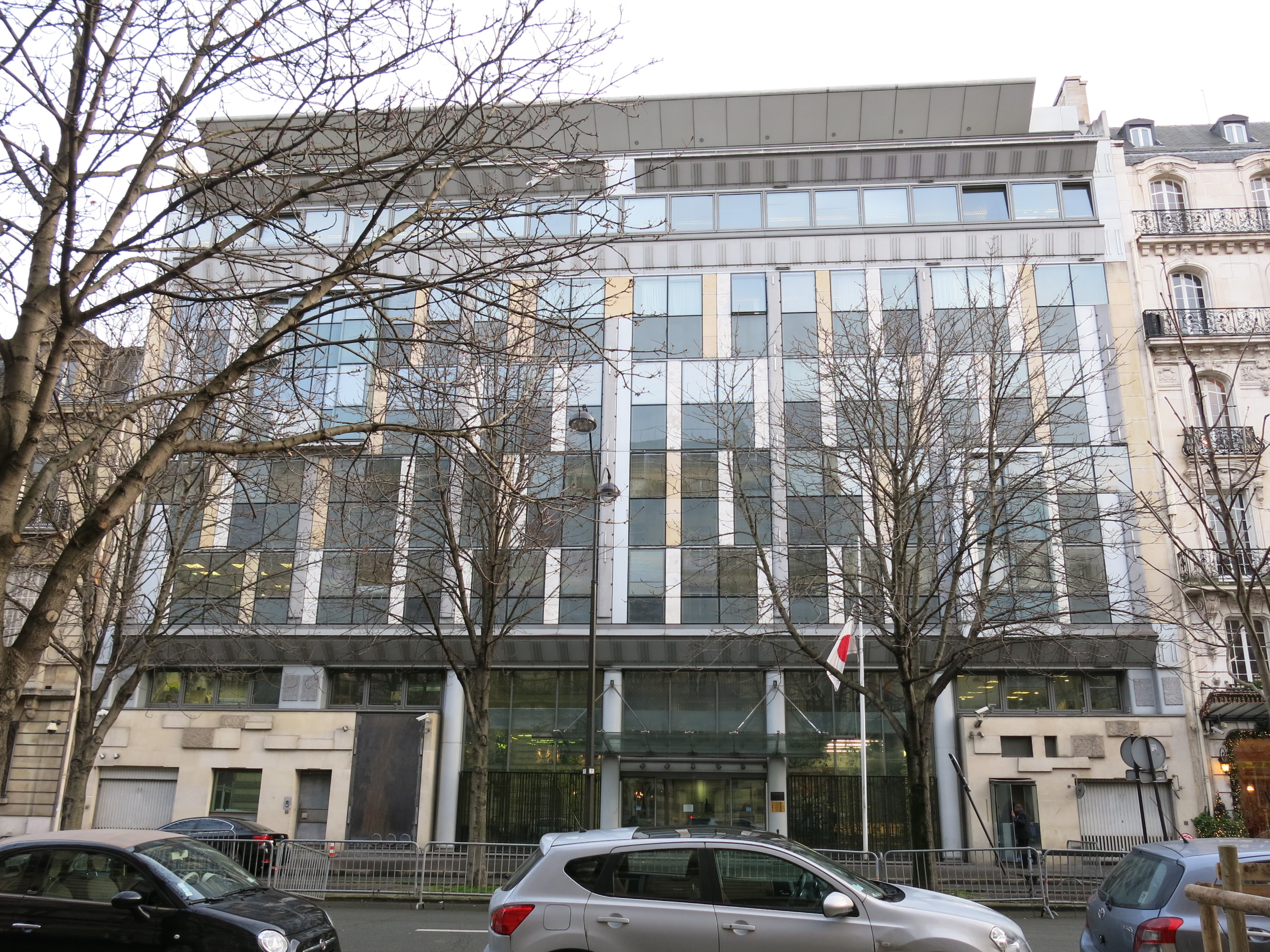 Embassy of Japan in France, 7 avenue Hoche (Paris 8th arrond., France).